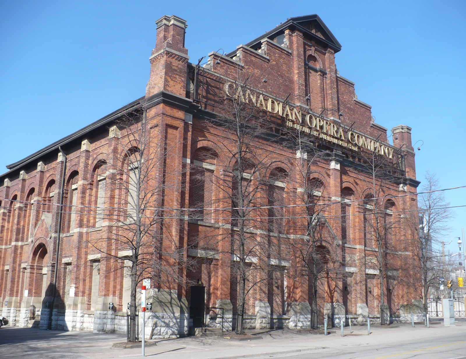 The Joey and Toby Tannenbaum Opera Centre at Front St. and Berkeley St. in Toronto